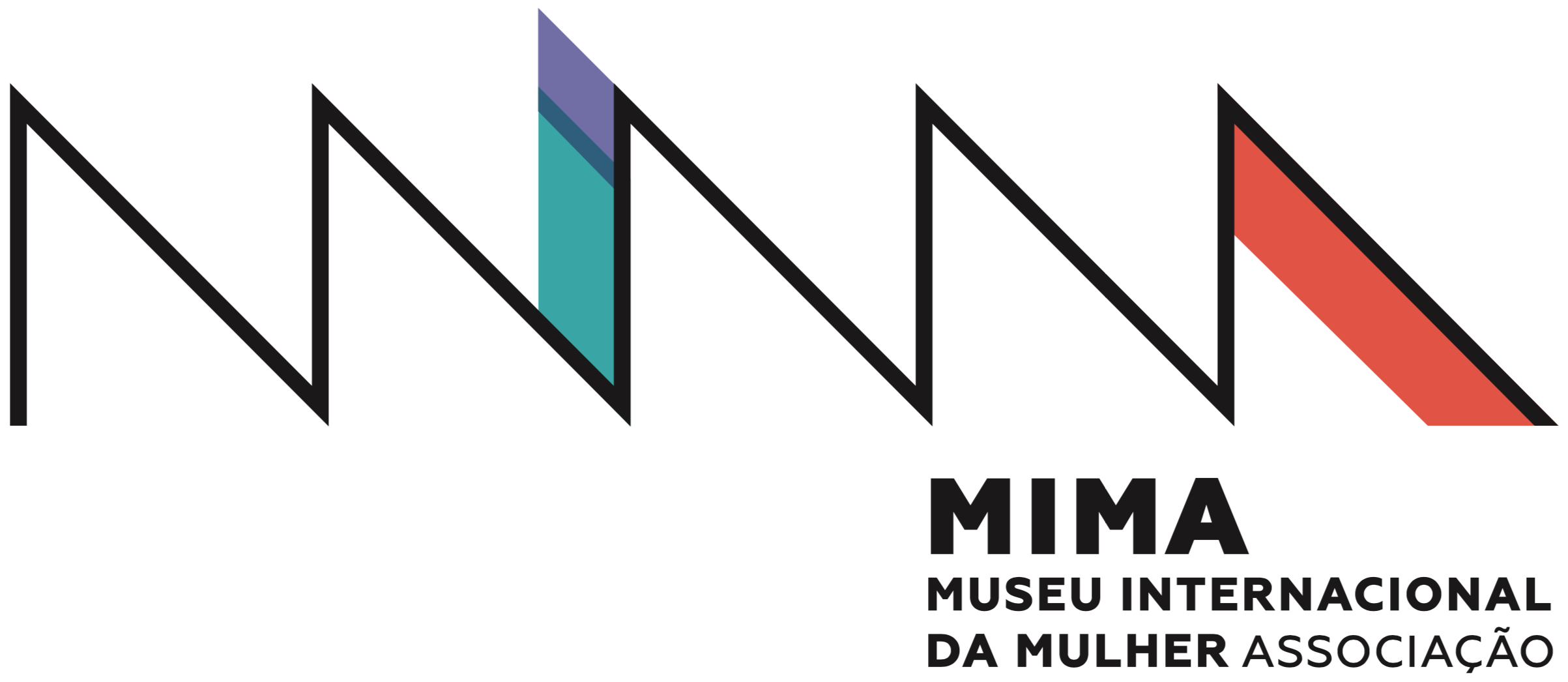 Logo Museu Internacional da Mulher - Associação